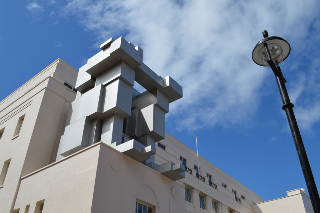 Antony Gormley creation in Mayfair: "ROOM" is a sculpture, the interior of which is a hotel suite on the façade of London's Beaumont Hotel.